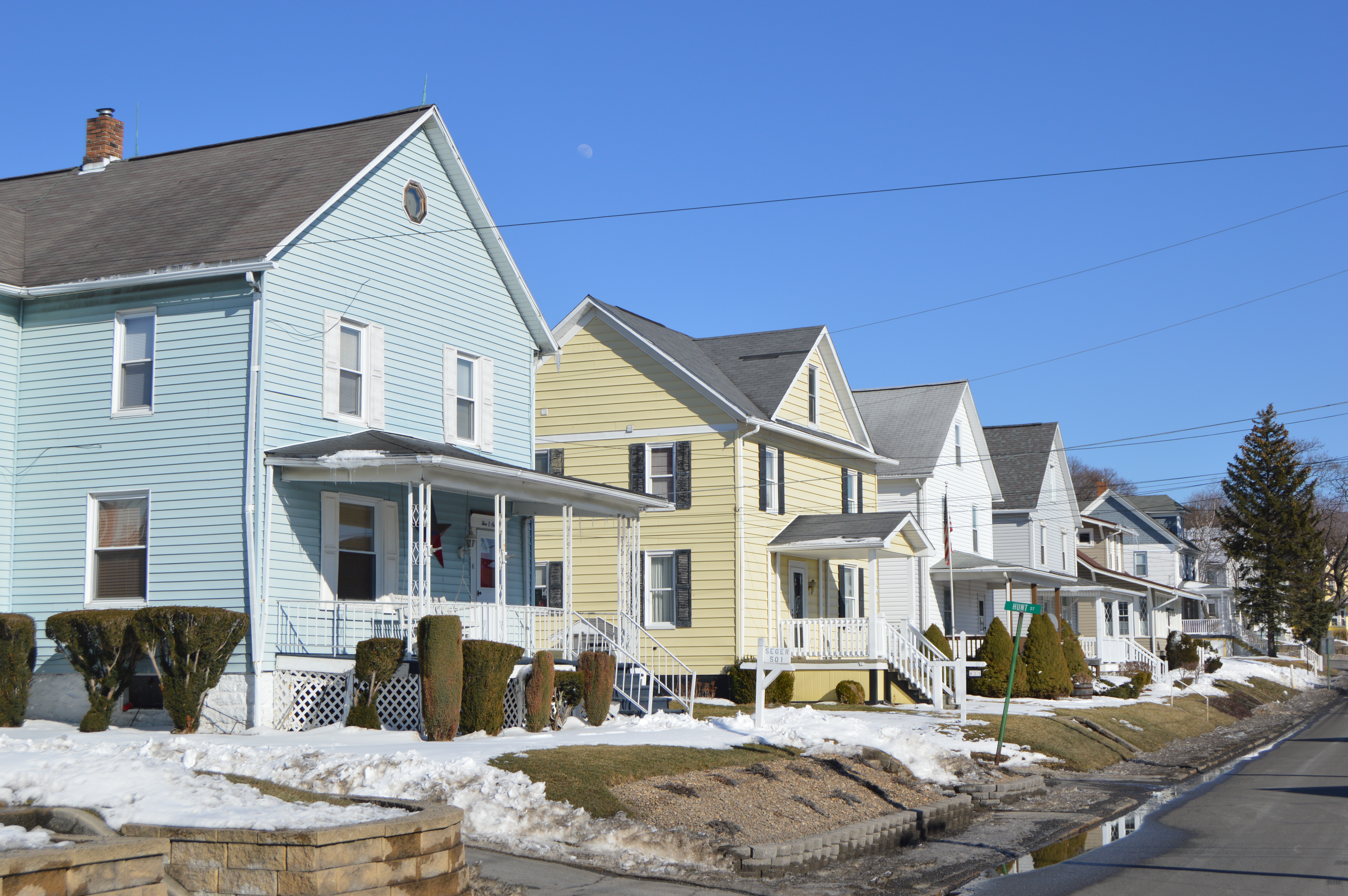 Houses on the northeastern side of Bedford Street at the Oak Street intersection in Paint, Pennsylvania, United States. This section of Bedford is part of the Windber Historic District, a historic district that is listed on the National Register of Historic Places.